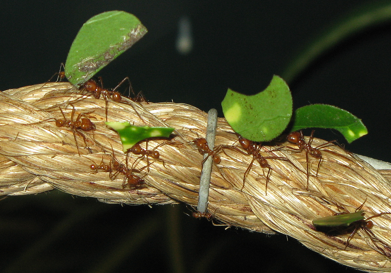 Leaf cutter ants Atta cephalotes (Bug World, Bristol Zoo, England). The grey piece is a wire binding the rope.